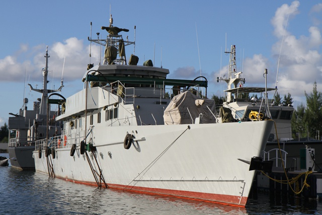 Patrol vessel, a Type 062-class gunboat (Shanghai II-class by NATO designation), which was gifted to the Seychelles Coast Guard by Chinese government.